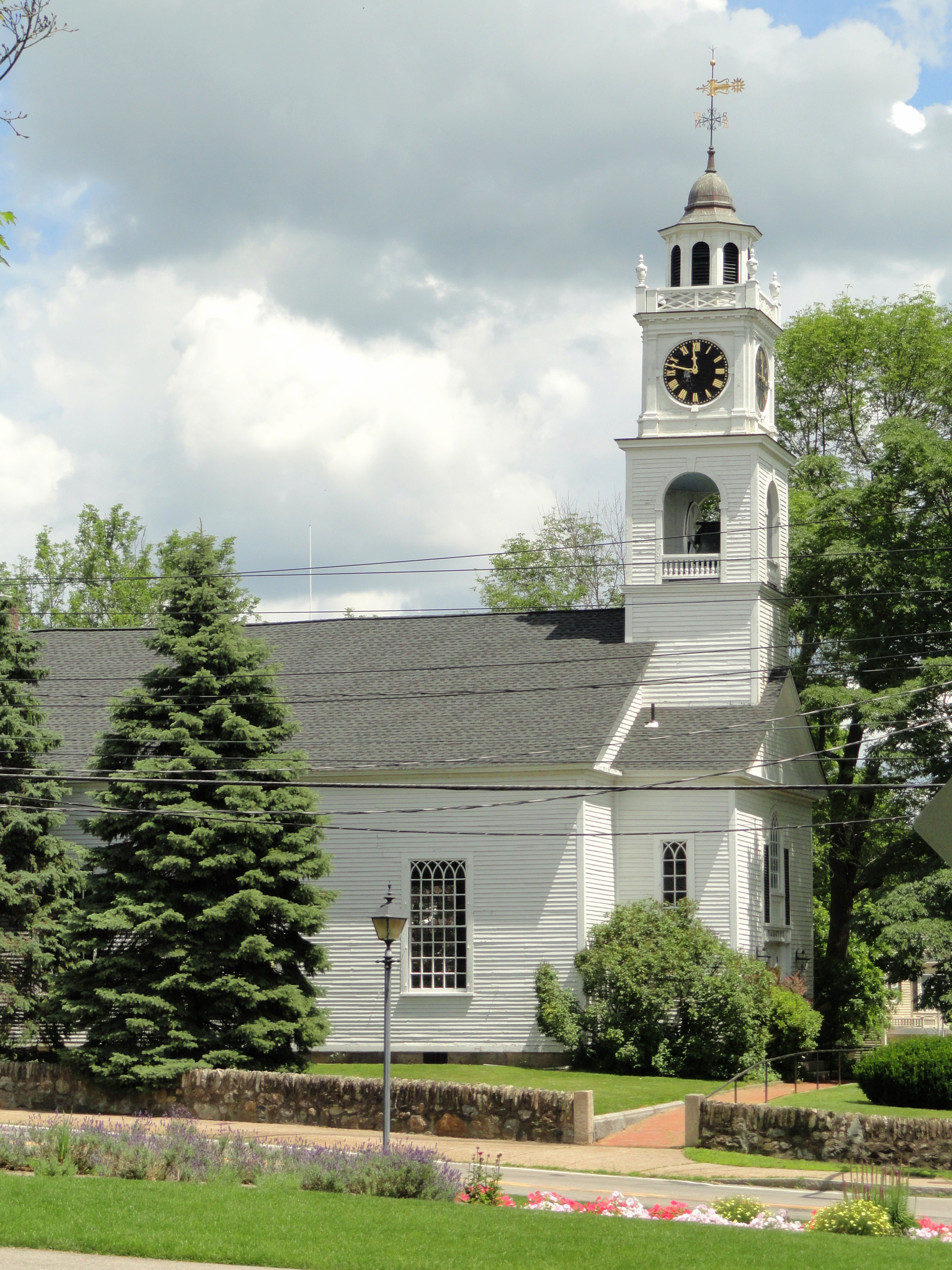 Eliot Church of South Natick, Pleasant Street, Natick, Massachusetts, USA.